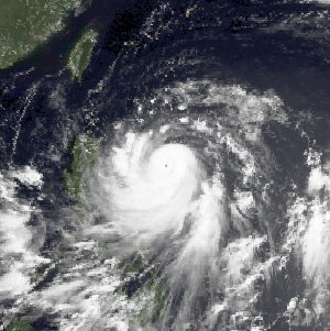 Typhoon Warren on July 17, 1988